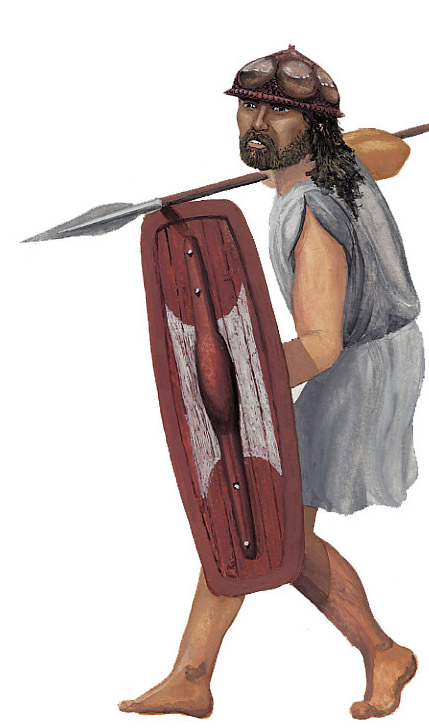 Illyrian footman(wearing a disc a disc and stud helmet 1000-200 bc)(The sketch was part of a study for a publication but the project has been cancelled)